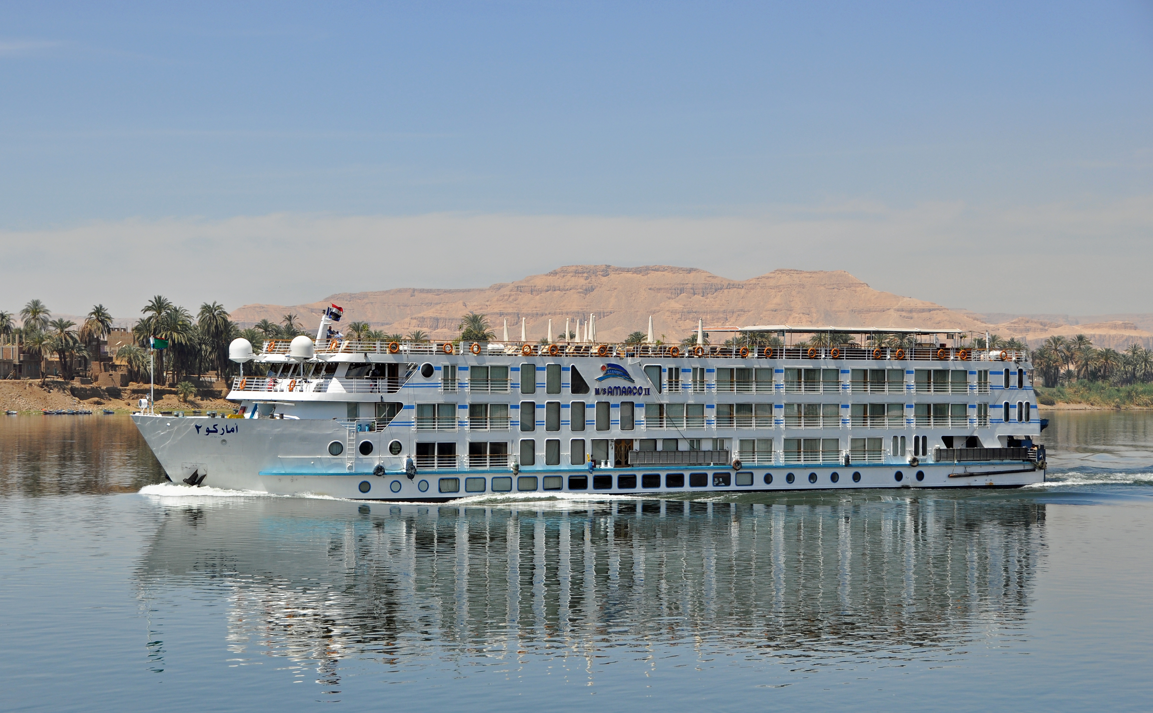 River cruise ship MS Amarco II on the Nile in Luxor (Egypt)